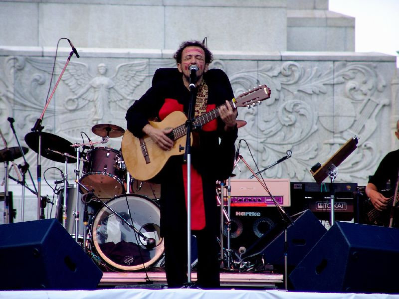 Tom Zé in São Paulo, Brazil.